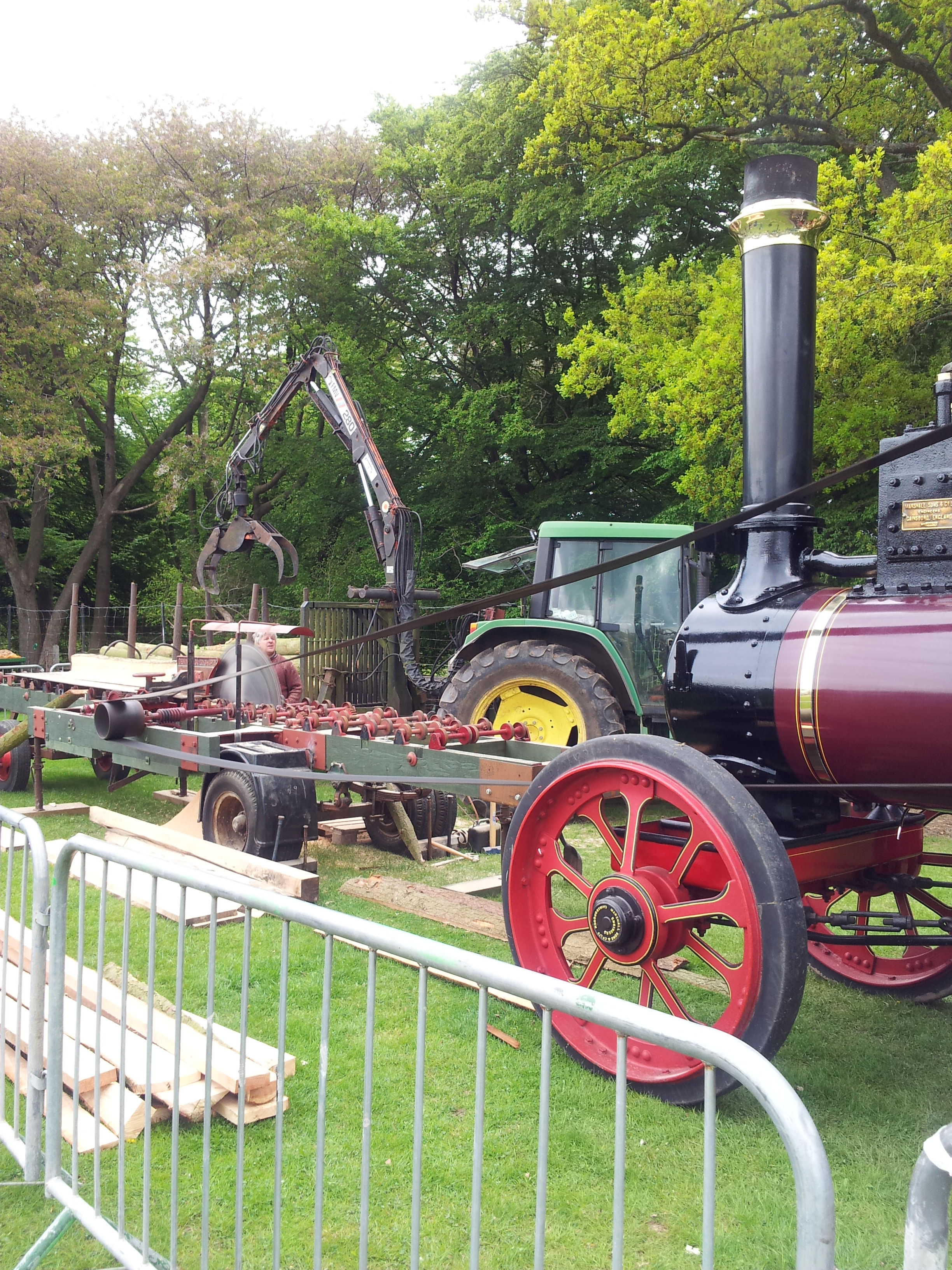 Marshall Sons & Co traction engine powered timber saw